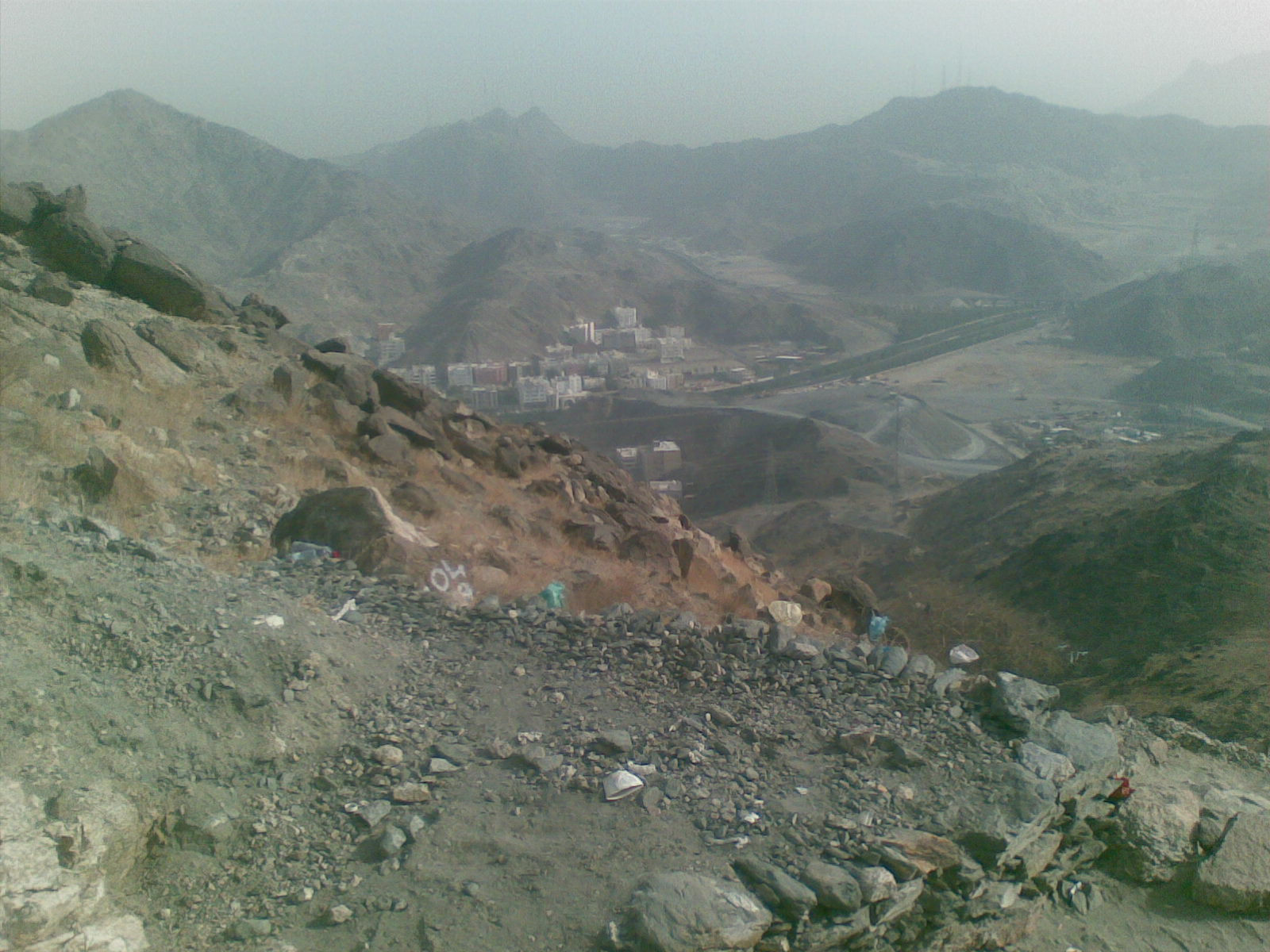 Hills near Mecca